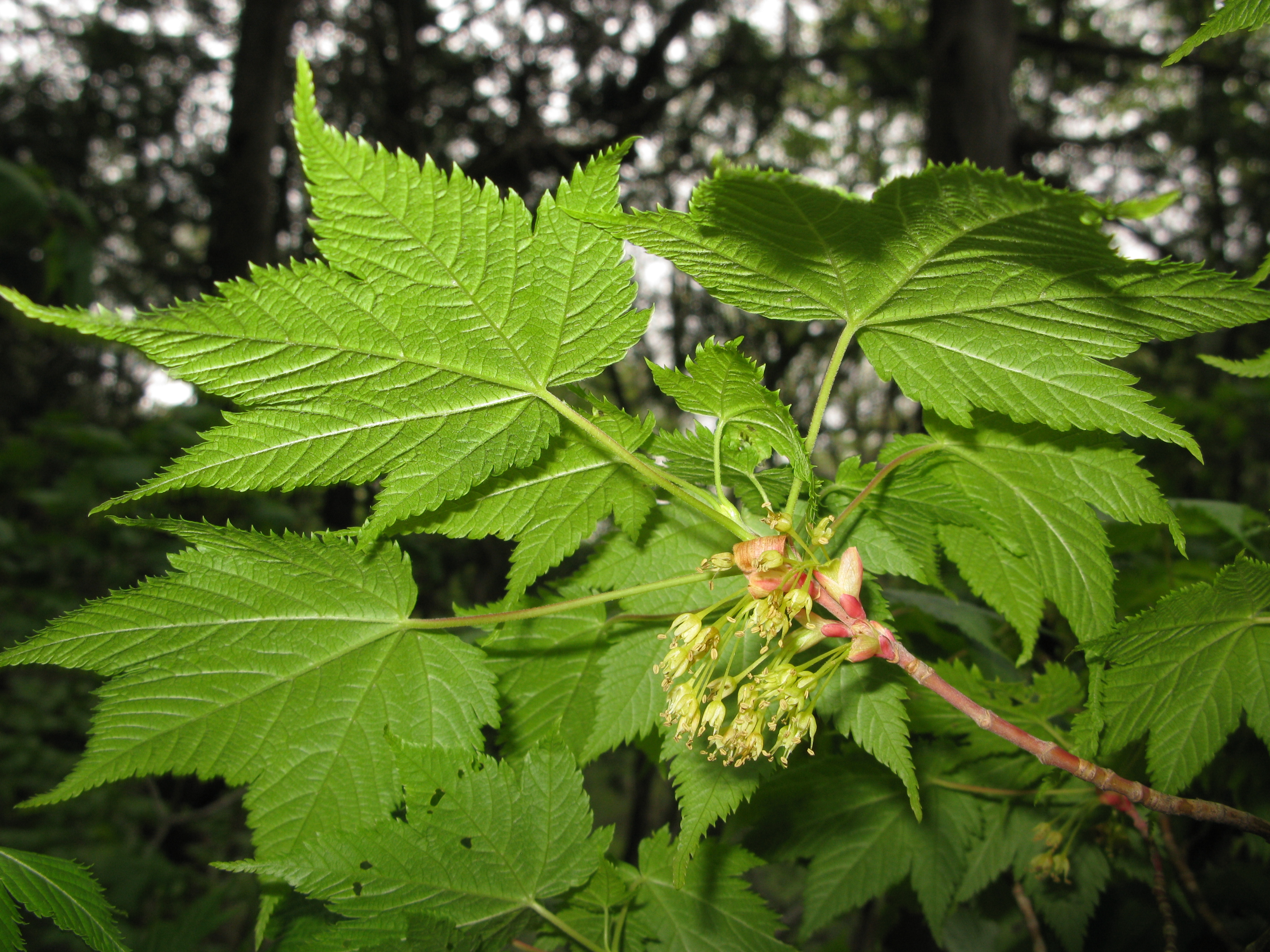 Acer argutum, male flowers, Aizu area, Fukushima pref., Japan